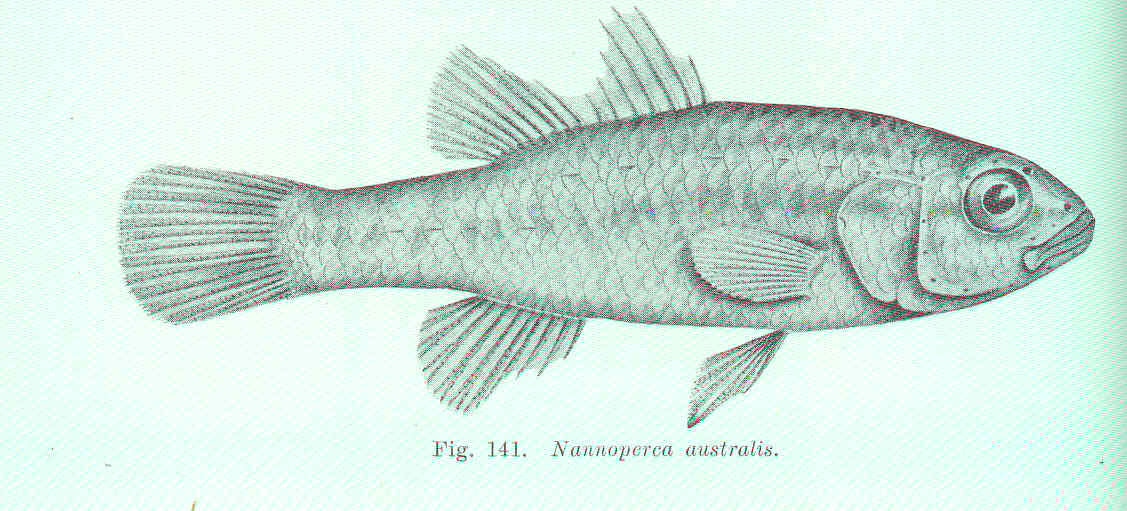 Nannoperca australis Subject: Centrarchidae, Perch Tag: Fish